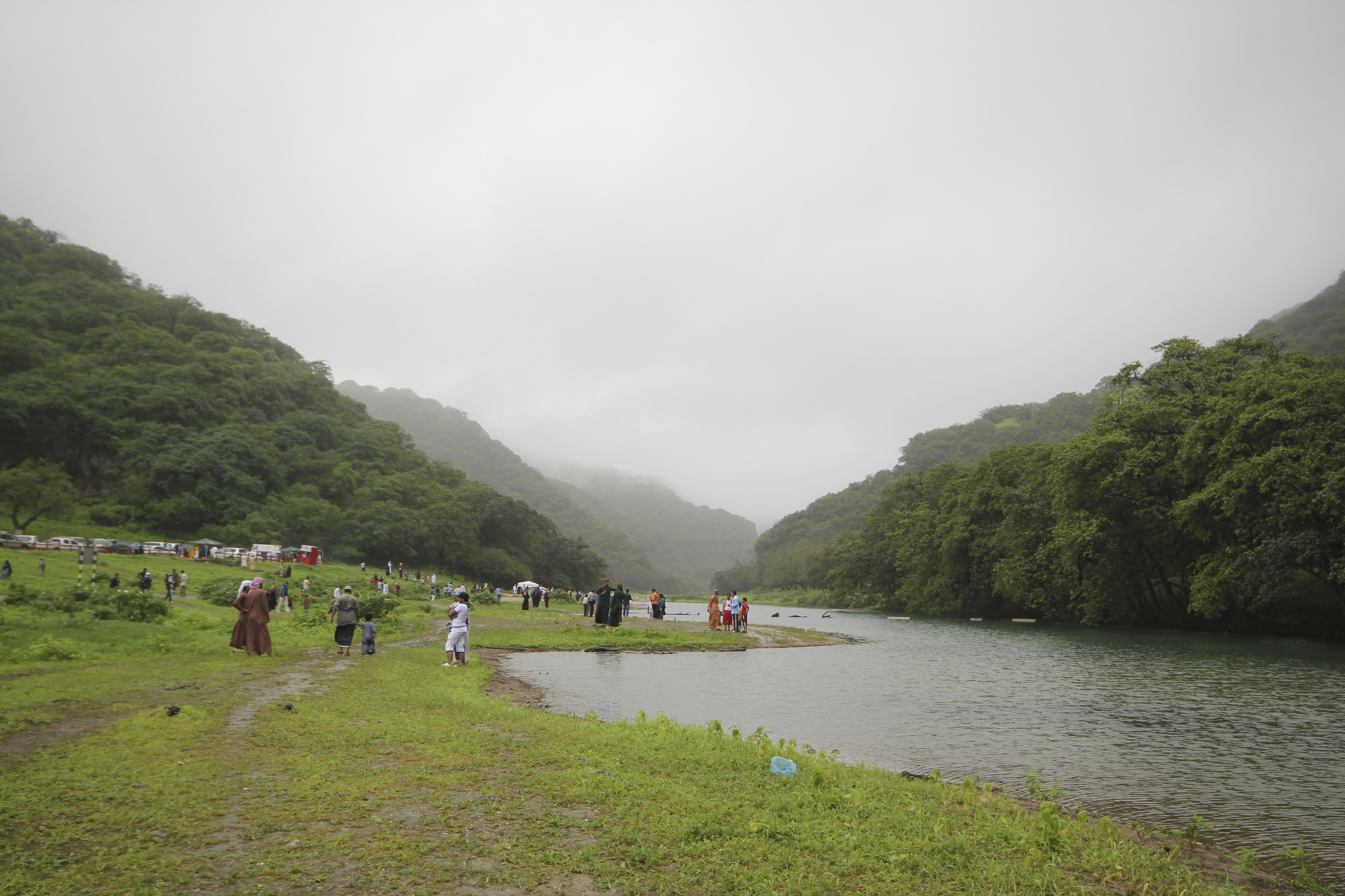 Wadi Darbat, Dhofar.